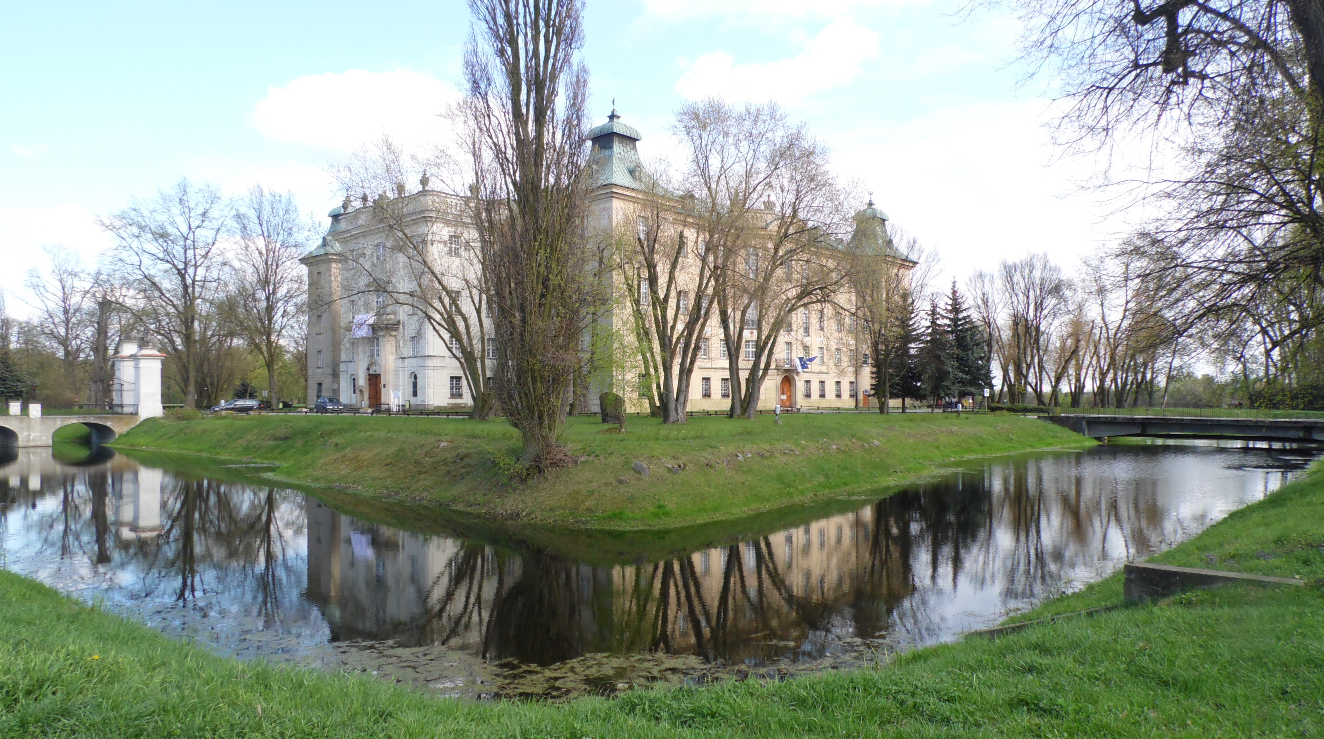 Castle of the seventeenth and eighteenth, twentieth century (p. Mon. - West.) Rydzyna / area. Leszno / province. Greater Poland / Poland